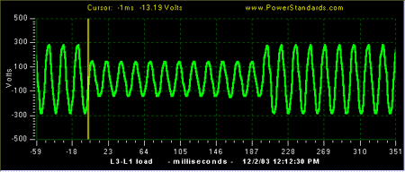 sag 1